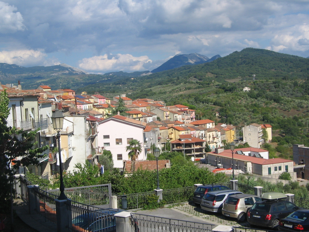 Panoramic view of Bellosguardo from the western side of the town.